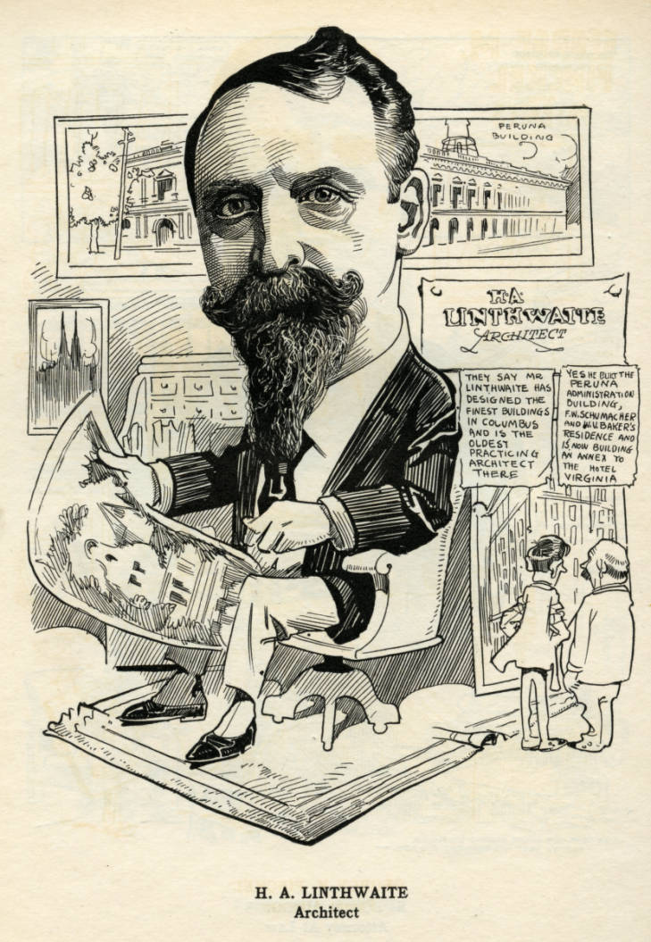 Photo #2: Club Men of Columbus in Caricature (Roycrofters), OH 920.0771 I65c, (p. 304)